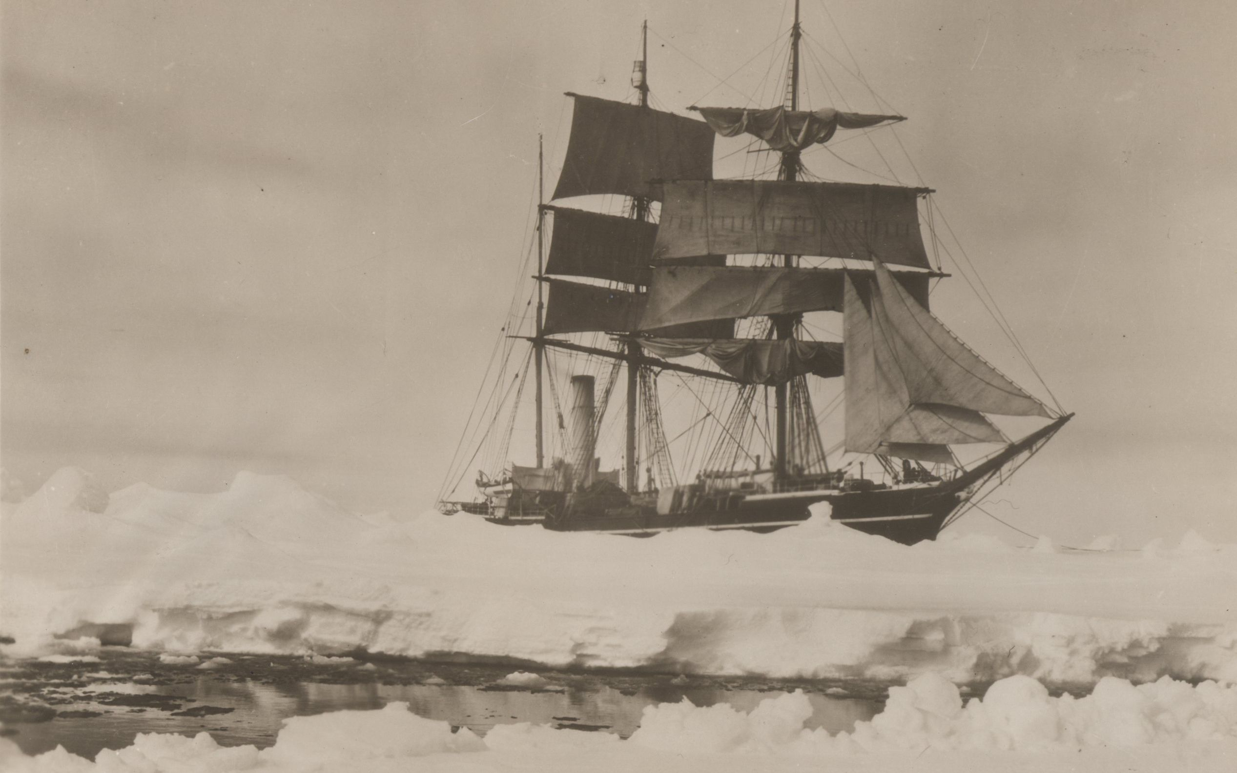 Robert Falcon Scott's Terra Nova. In the pack - a lead opening up.